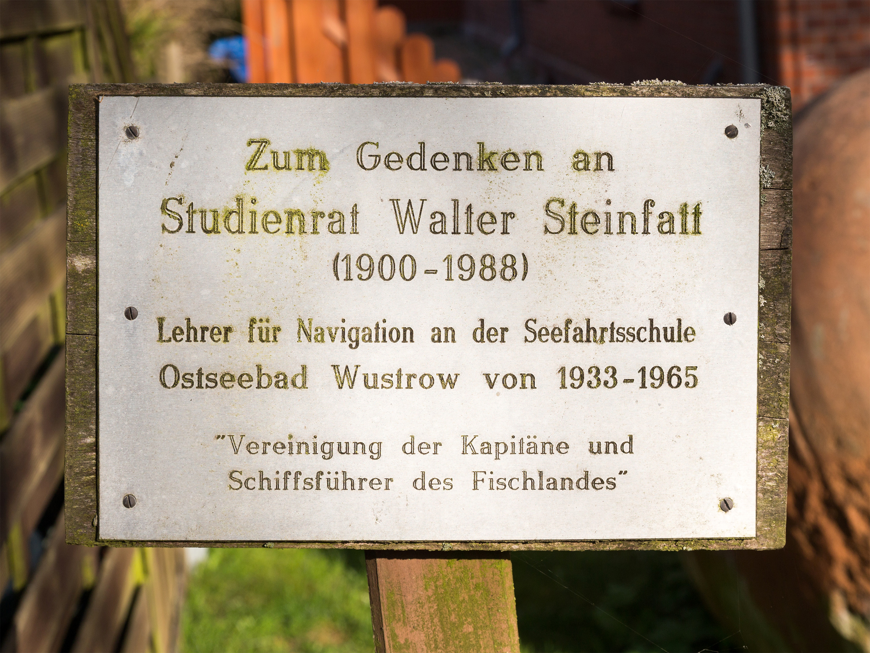 Wustrow (Fischland), memorial plaque to Walter Steinfatt (1900-1988)